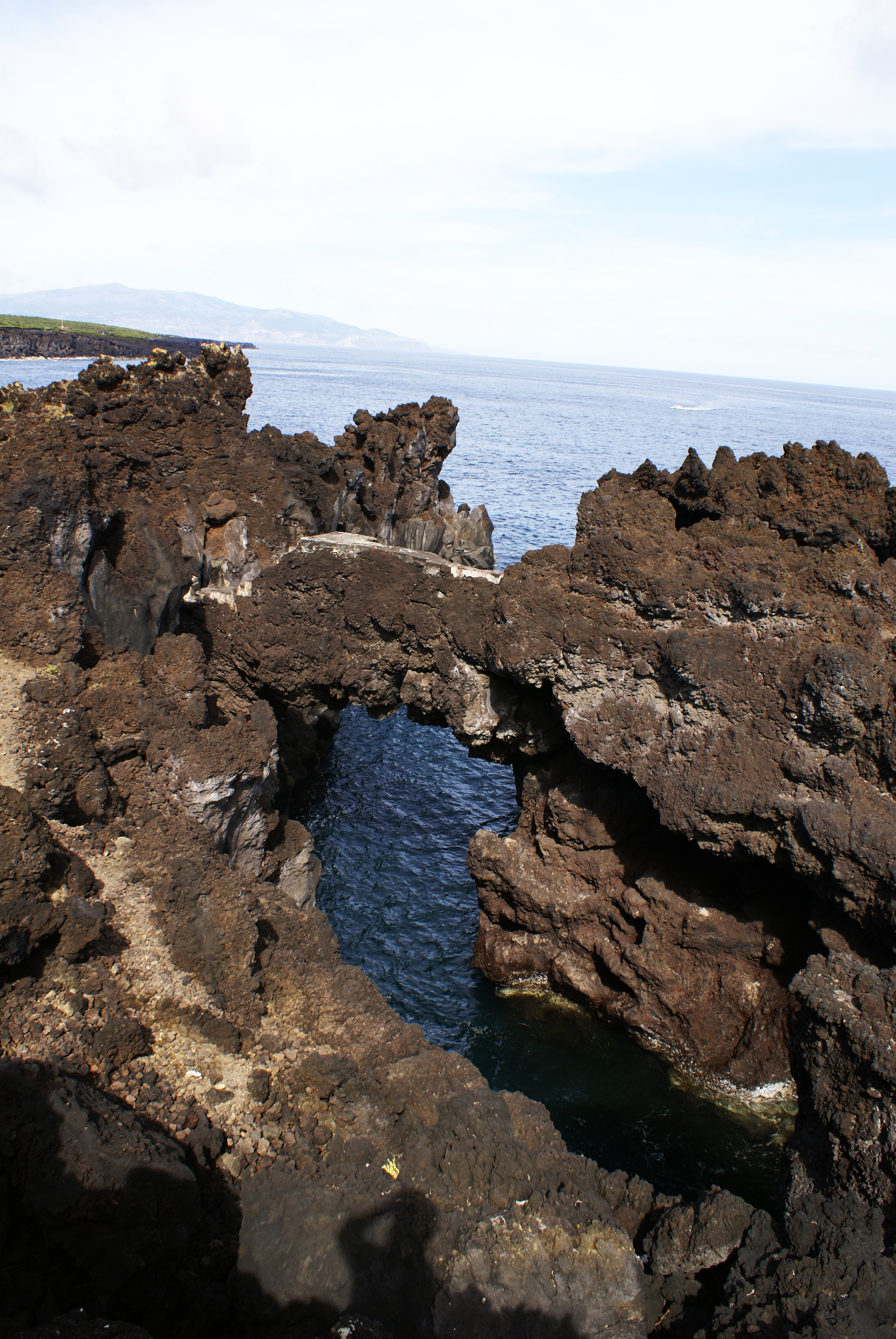 Arcos do Cachorro, ascos, Bandeiras, concelho da Madalena, ilha do Pico, Açores